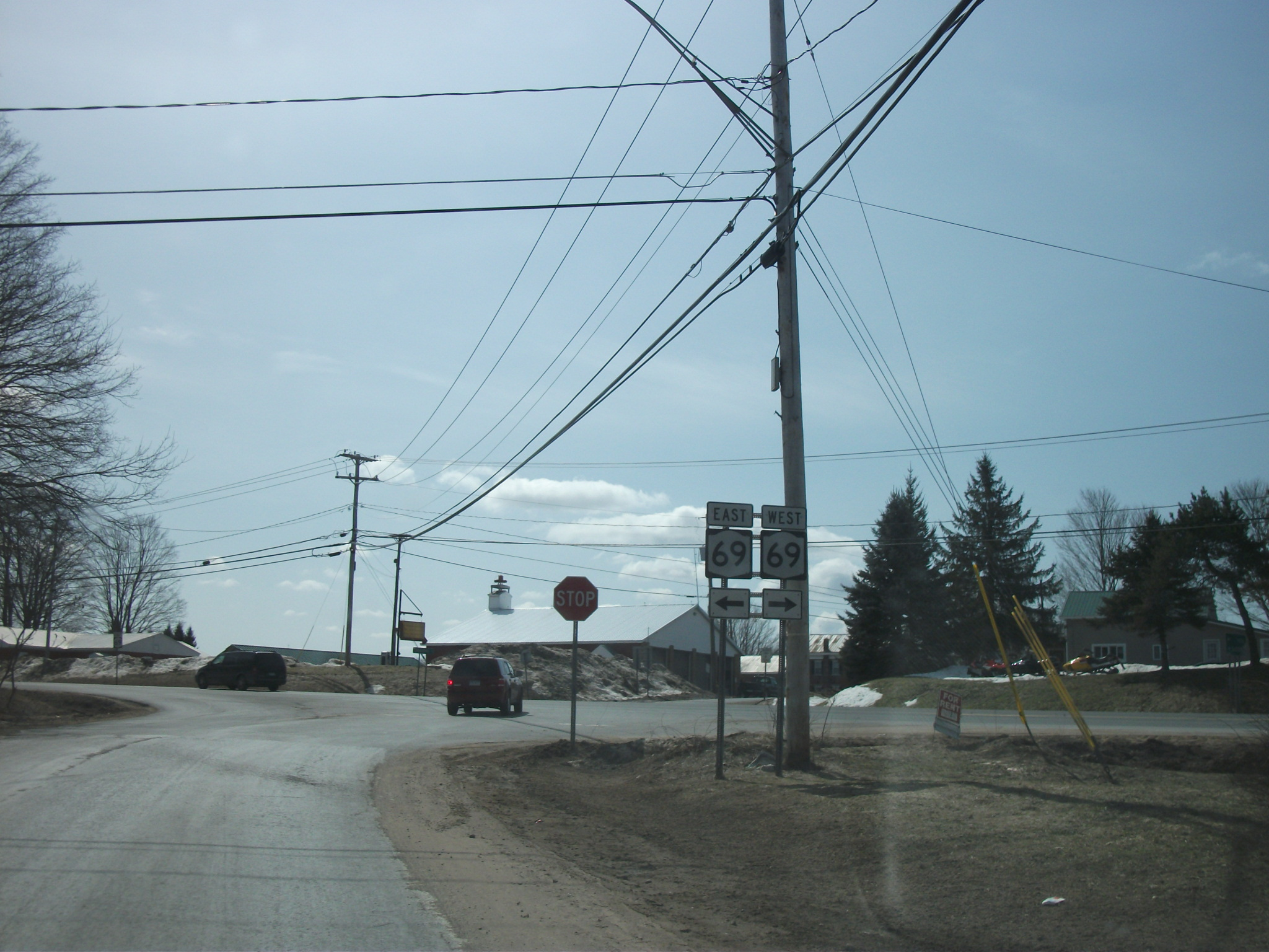 Oneida County Route 70A, former New York State Route 285, approaching the eastern terminus of NY 69 in Taberg, New York.